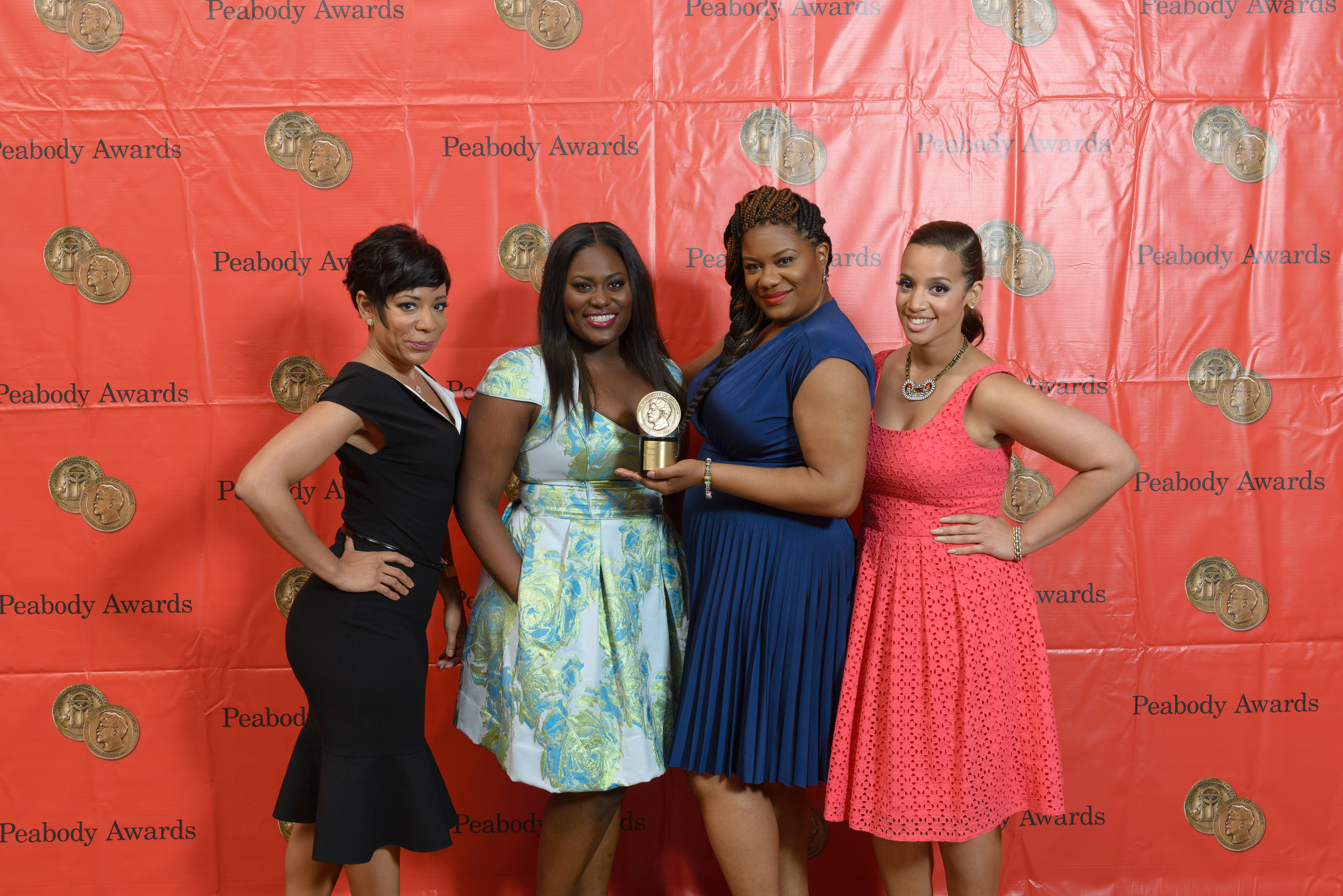 Orange is the New Black cast at the 73rd Annual Peabody Awards.